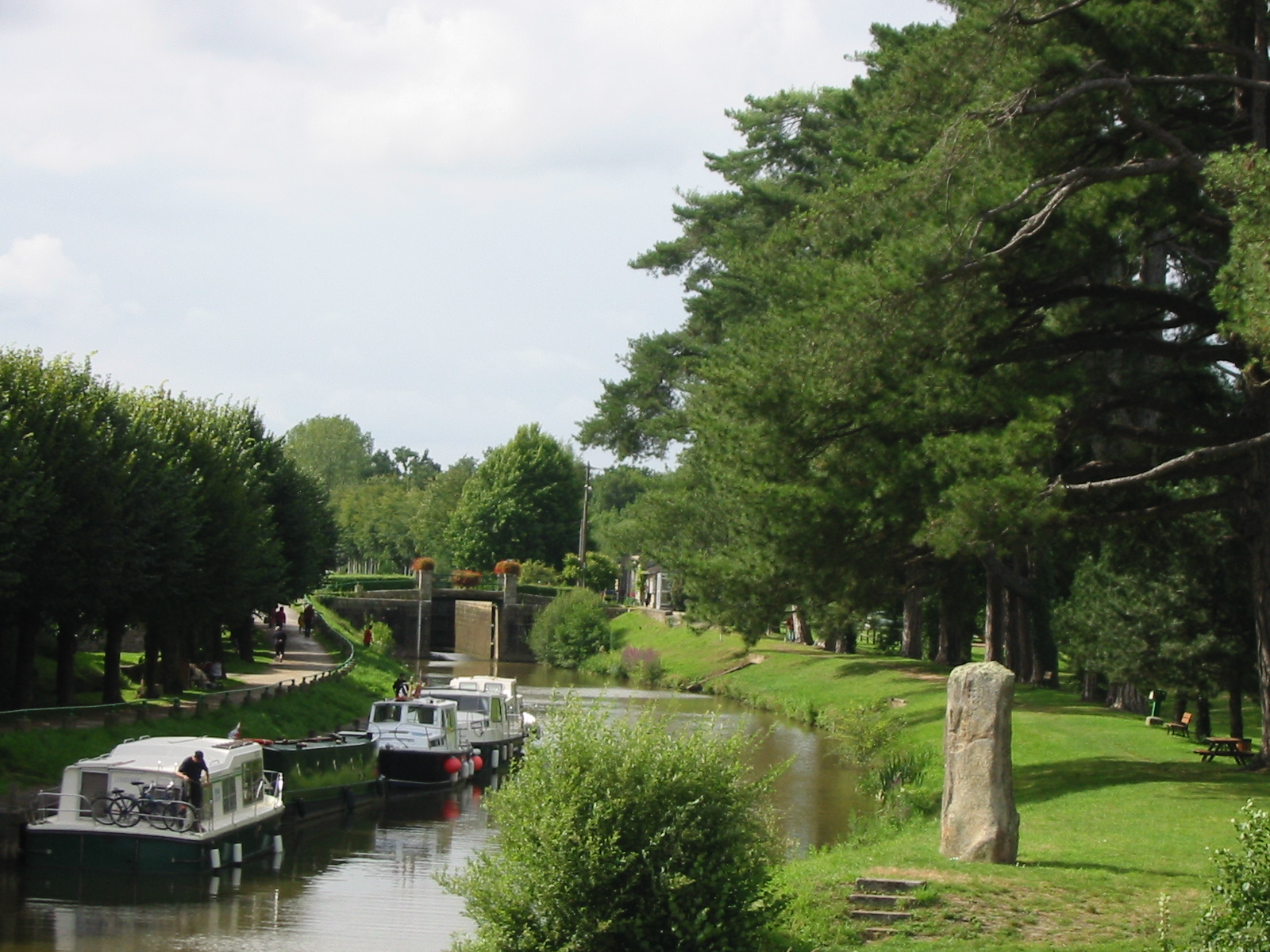 France, Britanny, Oust river